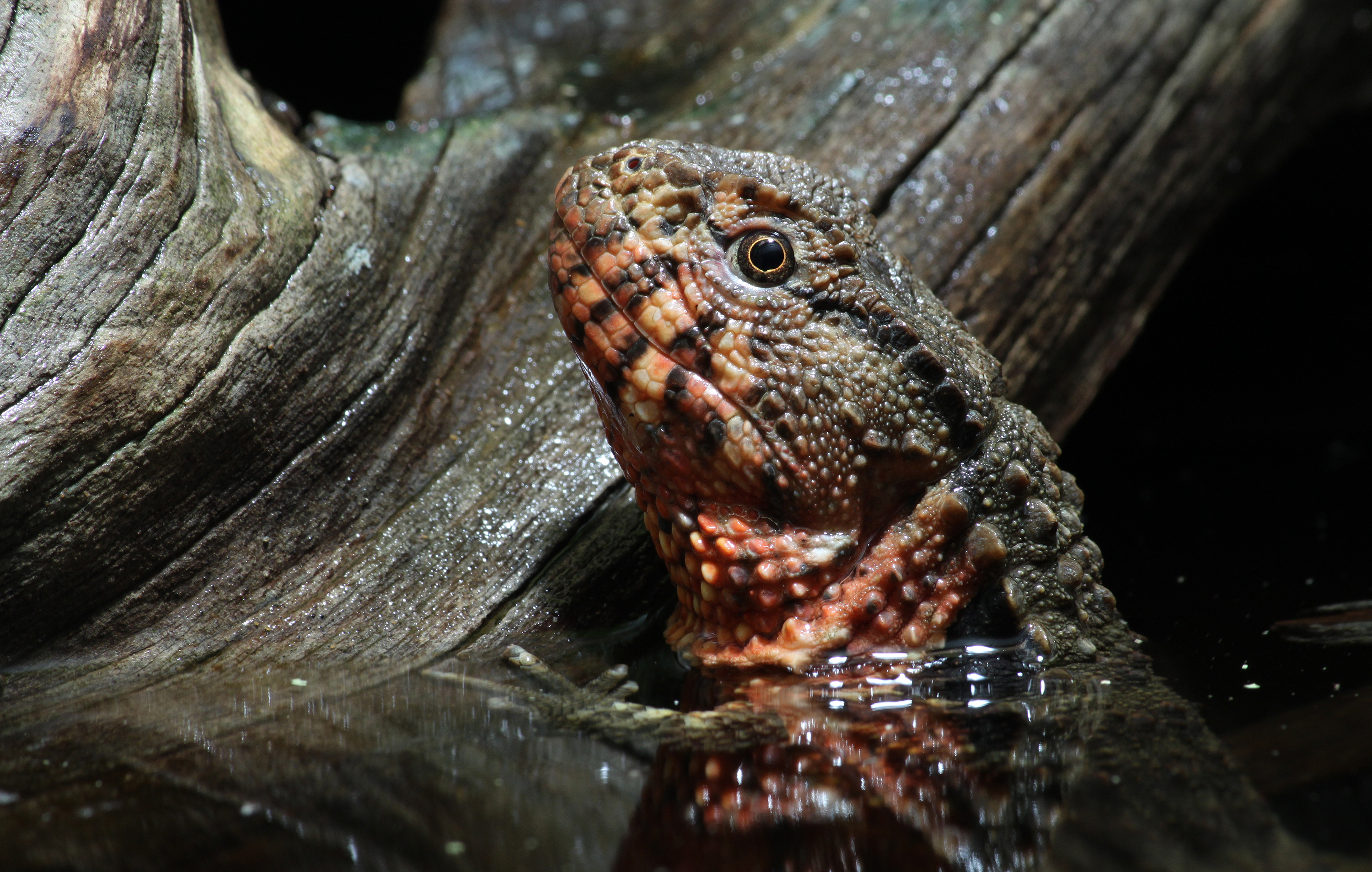 Chinese Crocodile Lizard, Shinisaurus crocodilurus, Family: Shinisauridae, Location: Germany, Stuttgart, Zoological Garden.